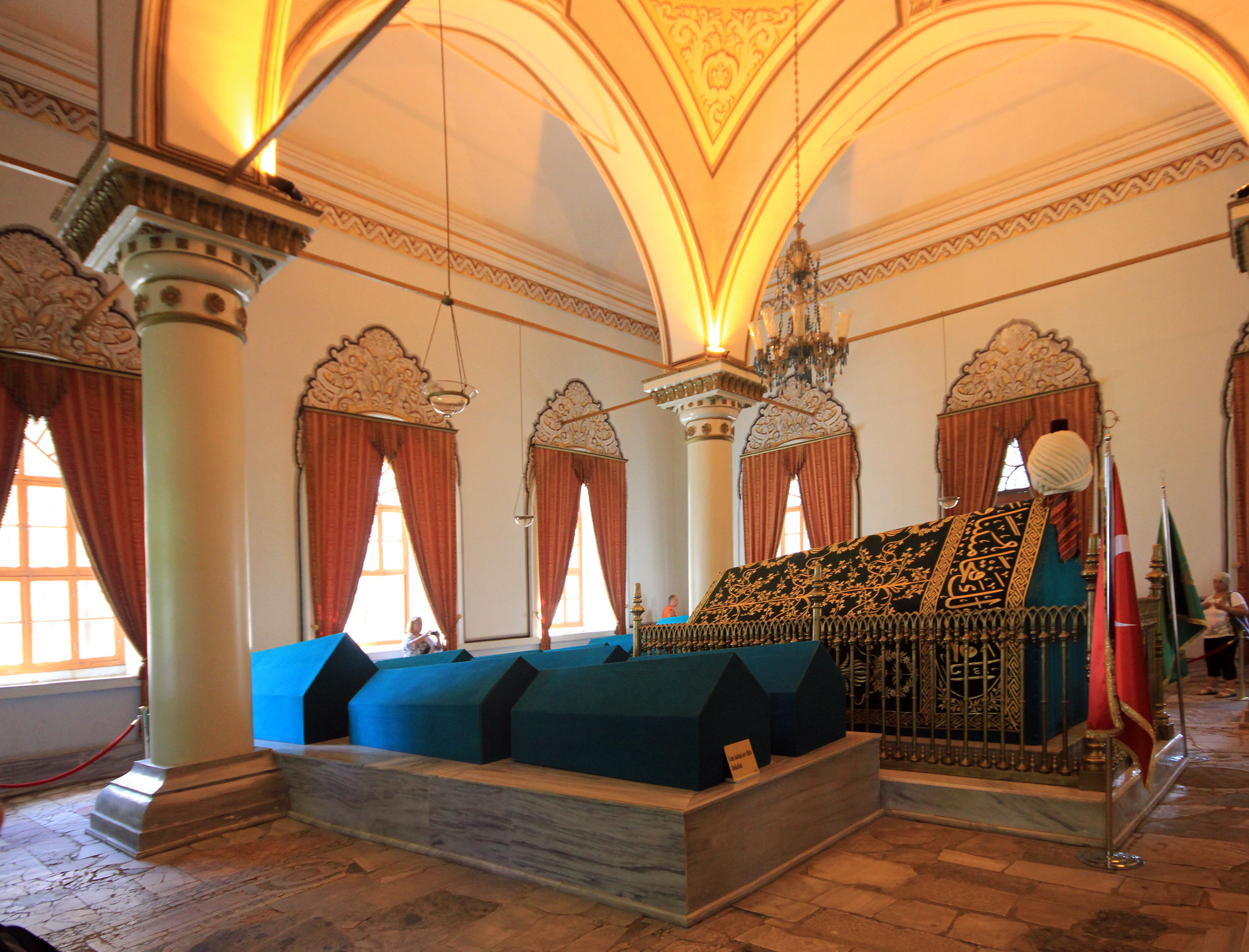 The tomb the second Osman sultan Orhan I. in Bursa city, Turkey